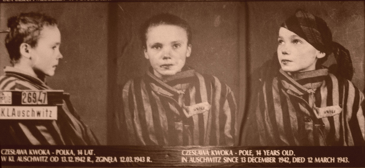 Czesława Kwoka, child victim of Auschwitz, as shown in her prisoner identification photo taken in 1942 or 1943 by the SS in Nazi-occupied Poland. The original photograph was created through force with both an unwilling subject and an unwilling photographer, notably prisoner Wilhelm Brasse. GDFL image taken by Skyliber in Auschwitz concentration camp in 2004.